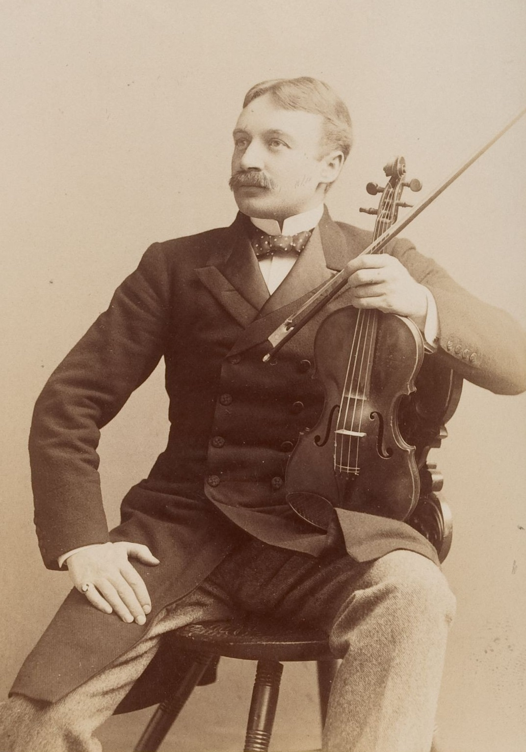 Cabinet card image of Polish-born American conductor, composer, and violinist Timothee Adamowski (1858-1946), posing with his violin. From a collection dated 1918. Cropped version. TCS 1.46, Harvard Theatre Collection, Harvard University